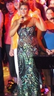 Sibel Can 2011 Side, Antalya konserinden bir görünüm.